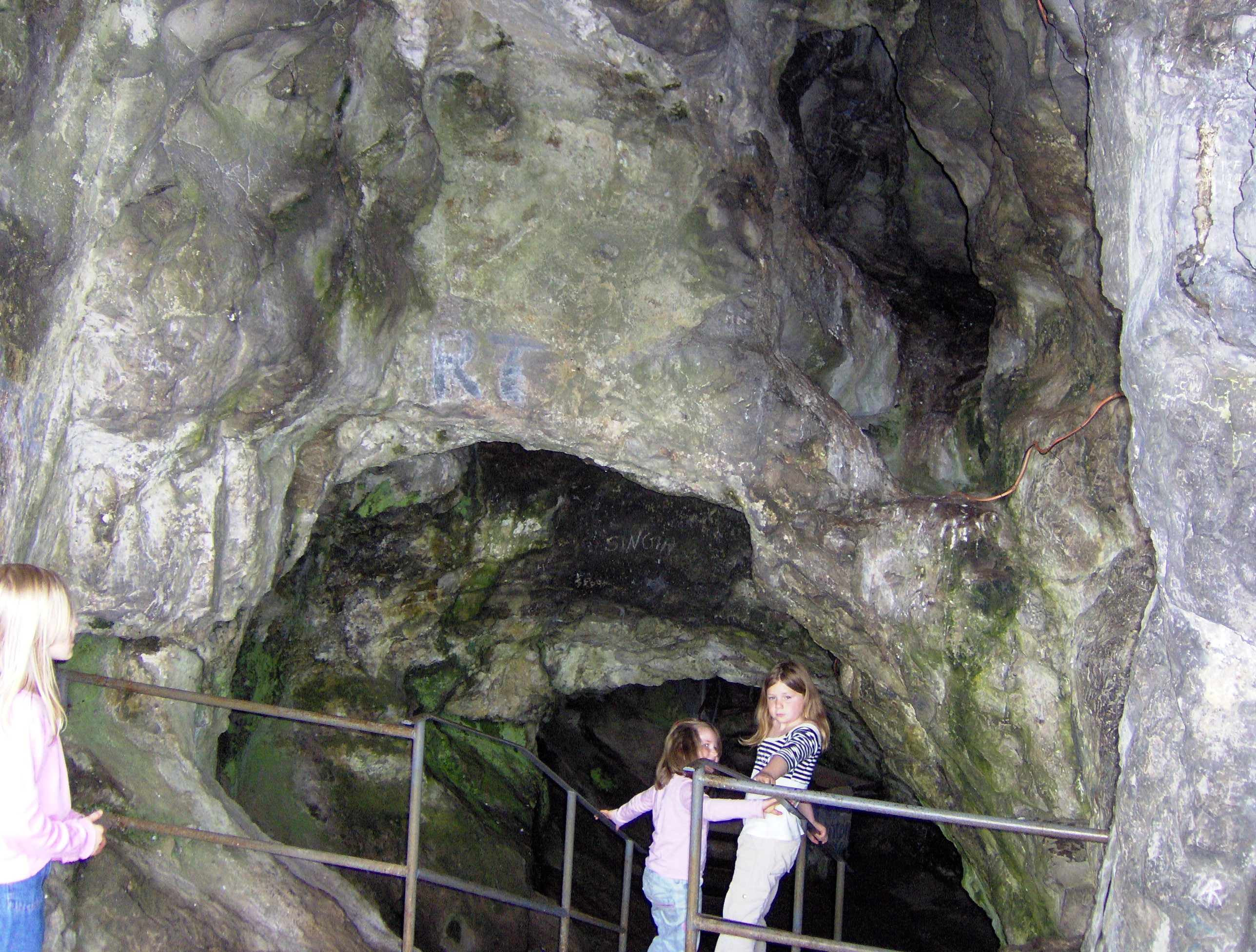 St Vincent's Cave (also known as Ghyston's Cave or Giant's Cave) beneath the Observatory, Bristol.